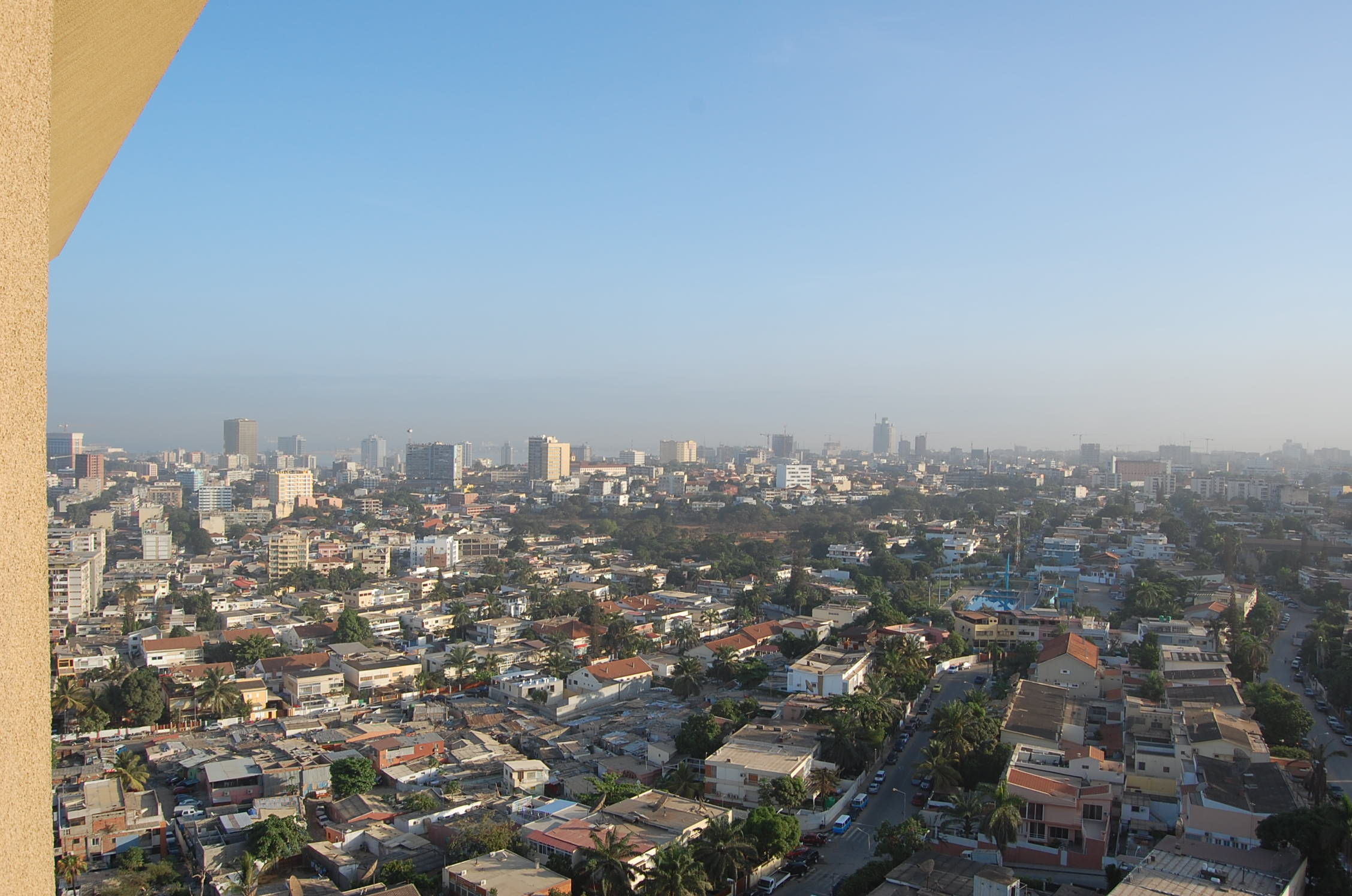 Luanda, Angola